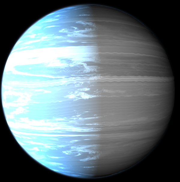 Based on free software screenshot. Rendering based on data available in May 2020.